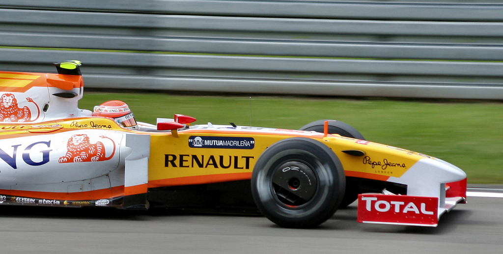 Nelson Angelo Piquet driving for Renault F1 at the 2009 German Grand Prix.